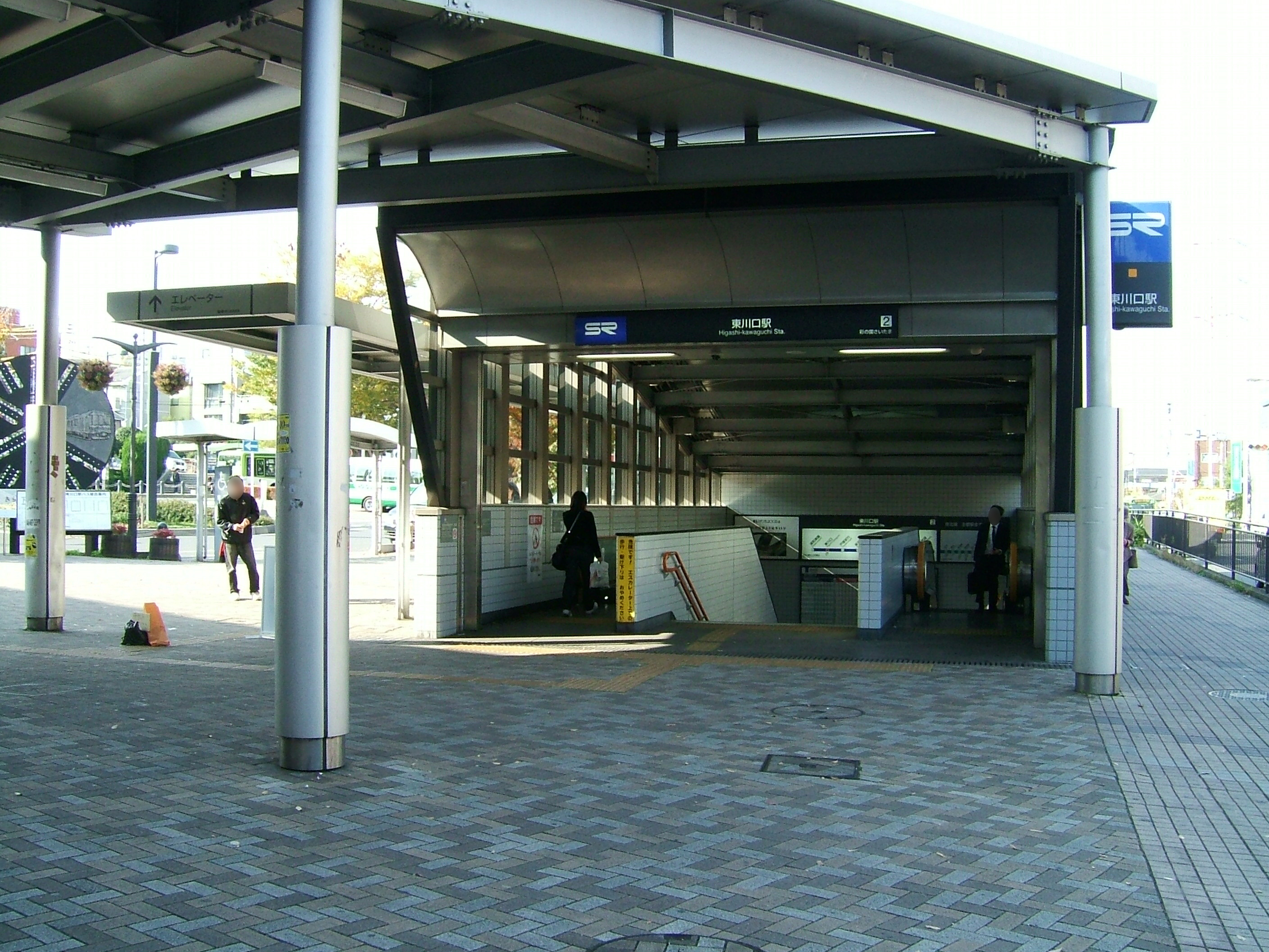 No. 2 entrance to Higashi-Kawaguchi Station on the Saitama Rapid Railway Line